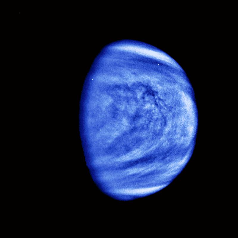 This picture of Venus was taken by the Galileo spacecraft’s Solid State Imaging System on February 14, 1990, at a range of almost 1.7 million miles from the planet. A highpass spatial filter has been applied in order to emphasize the smaller scale cloud features, and the rendition has been colorized to a bluish hue in order to emphasize the subtle contrasts in the cloud markings and to indicate that it was taken through a violet filter. The sulfuric acid clouds indicate considerable convective activity, in the equatorial regions of the planet to the left and downwind of the subsolar point (afternoon on Venus). They are analogous to “fair weather clouds” on Earth. The filamentary dark features visible in the colorized image are here revealed to be composed of several dark nodules, like beads on a string, each about 60 miles across. The Galileo Project is managed for NASA's Office of Space Science and Applications by the Jet Propulsion Laboratory; its mission is to study Jupiter and its satellites and magnetosphere after multiple gravity assist flybys at Venus and Earth.